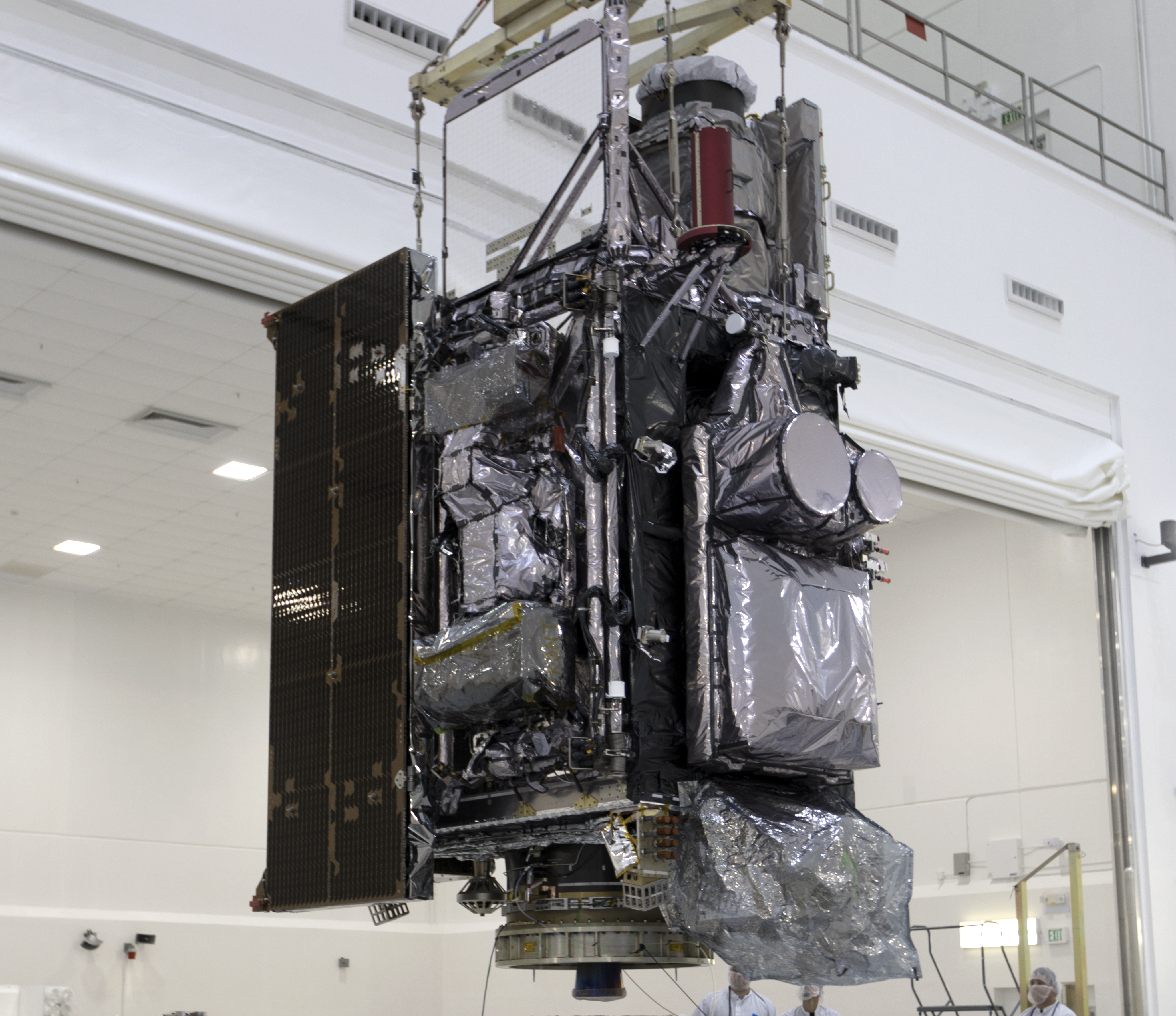 At Astrotech Space Operations in Titusville, Florida, technicians and engineers keep a watchful eye on NOAA's Geostationary Operational Environmental Satellite-S (GOES-S) as it is moved to a work stand. The facility is located near NASA's Kennedy Space Center. GOES-S is the second in a series of four advanced geostationary weather satellites. The GOES-R series - consisting of the GOES-R, GOES-S, GOES-T and GOES-U spacecraft - will significantly improve the detection and observation of environmental phenomena that directly affect public safety, protection of property and the nation's economic health and prosperity. GOES-S is slated to launch March 1, 2018 aboard a United Launch Alliance Atlas V rocket from Cape Canaveral Air Force Station in Florida. Photo credit: NASA/Leif Heimbold